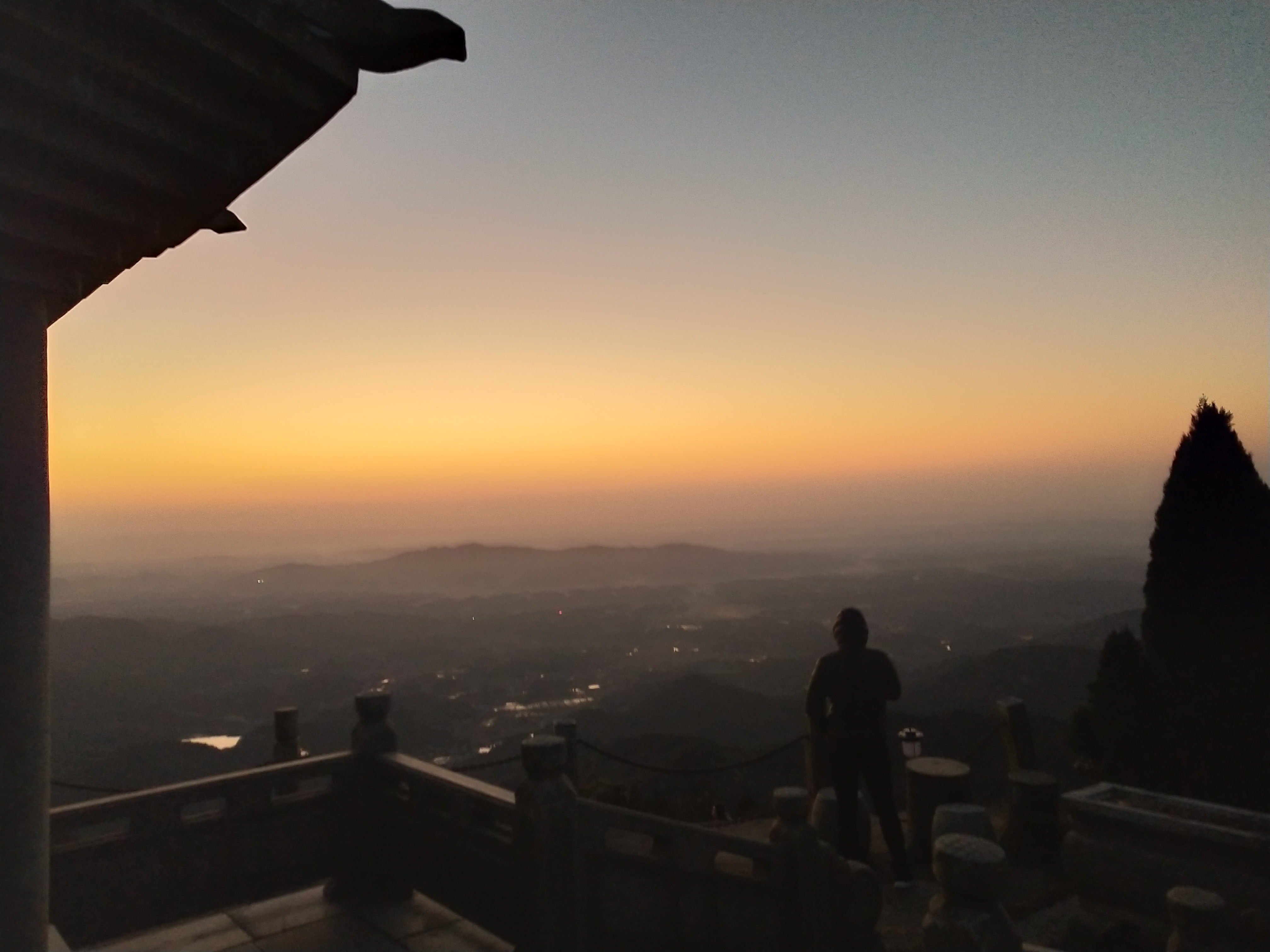 The Heimi Peak in Wangcheng District of Changsha, Hunan, China. Viewed from the top of Heimi Peak, the sunrise was indeed a spectacle.